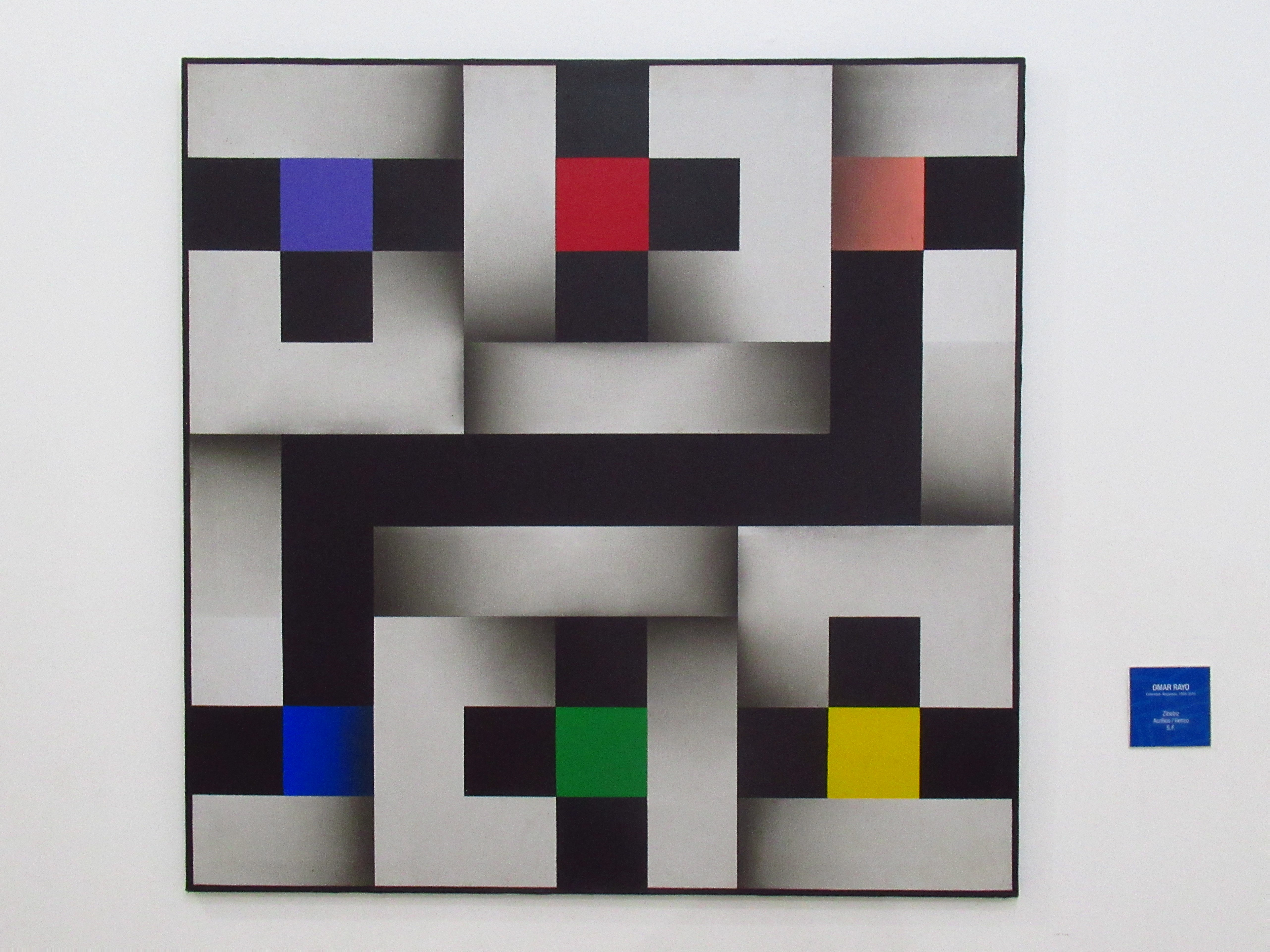 Santa Marta